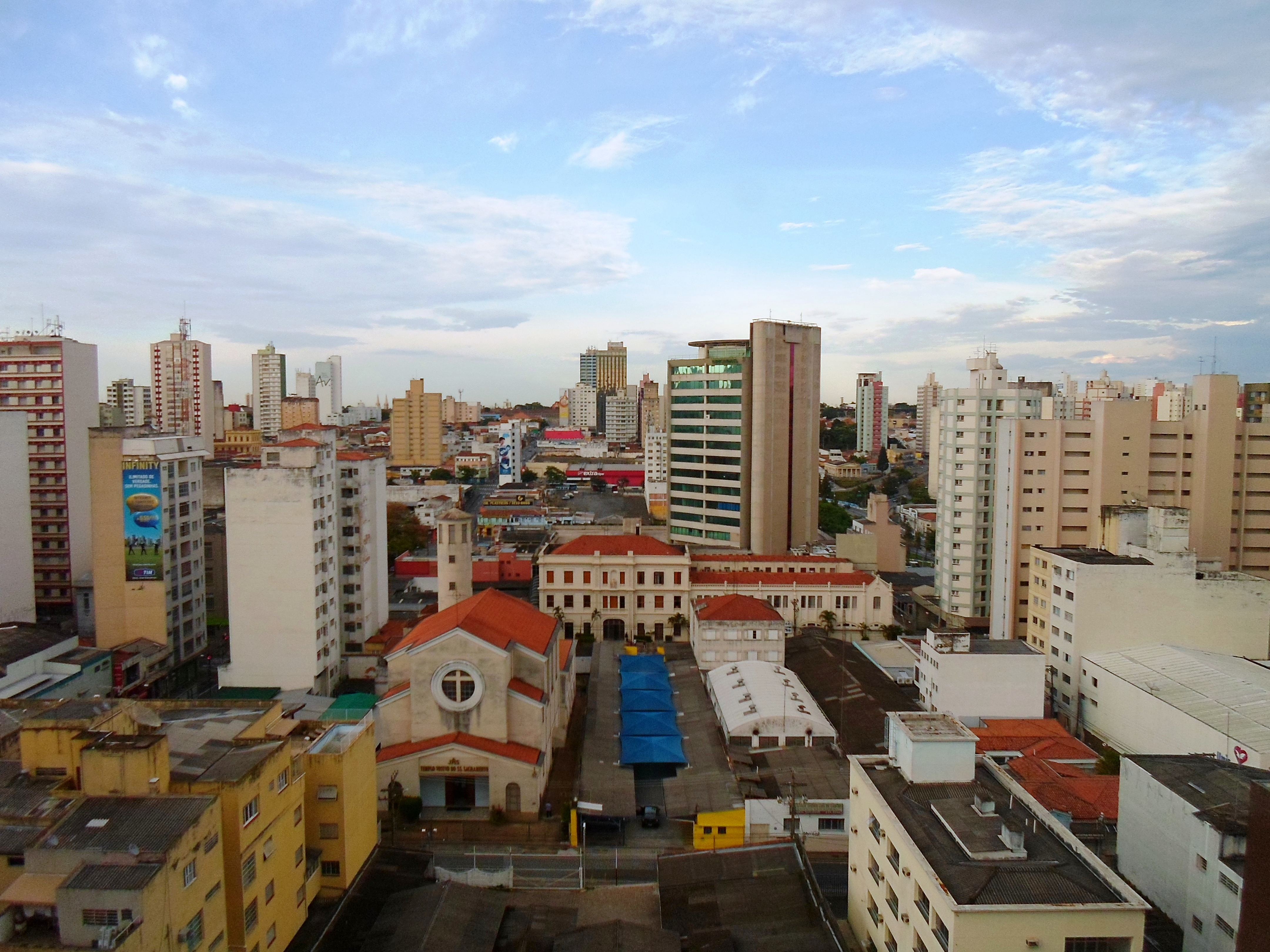 View of the center of Campinas, São Paulo, Brazil.